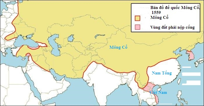 Mong Co